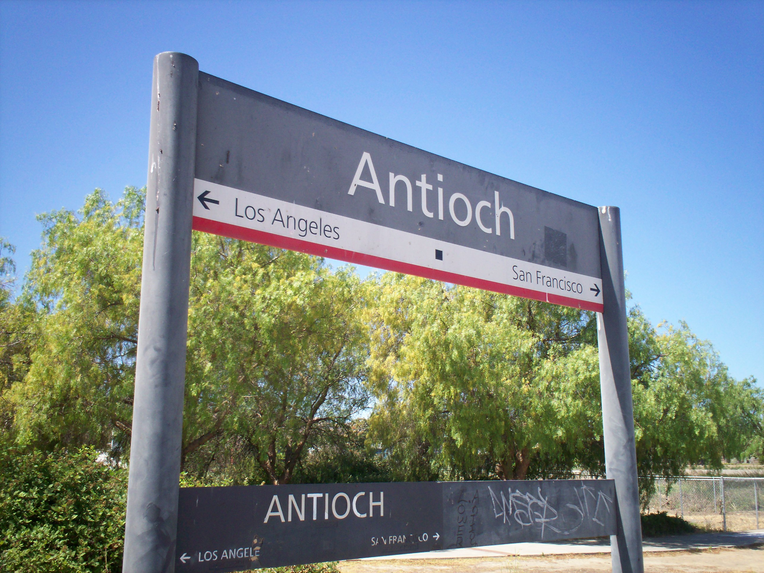 Sign at Antioch, California Amtrak station